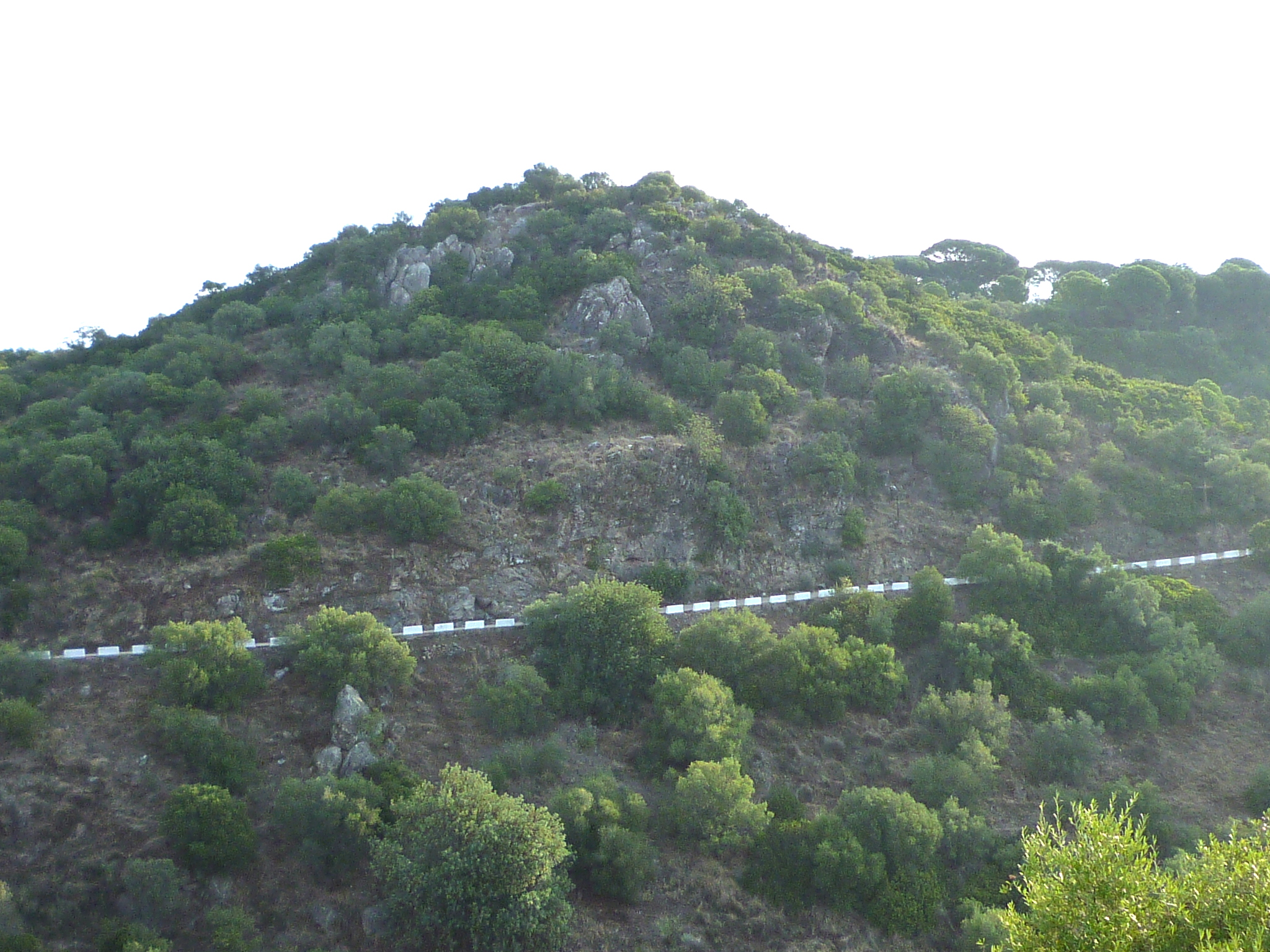 Cerro de las Ermitas (Cordoba, Spain) outcrops of Proterozoic and Lower Cambrian. Classic paleontological site with archaeocyathids.